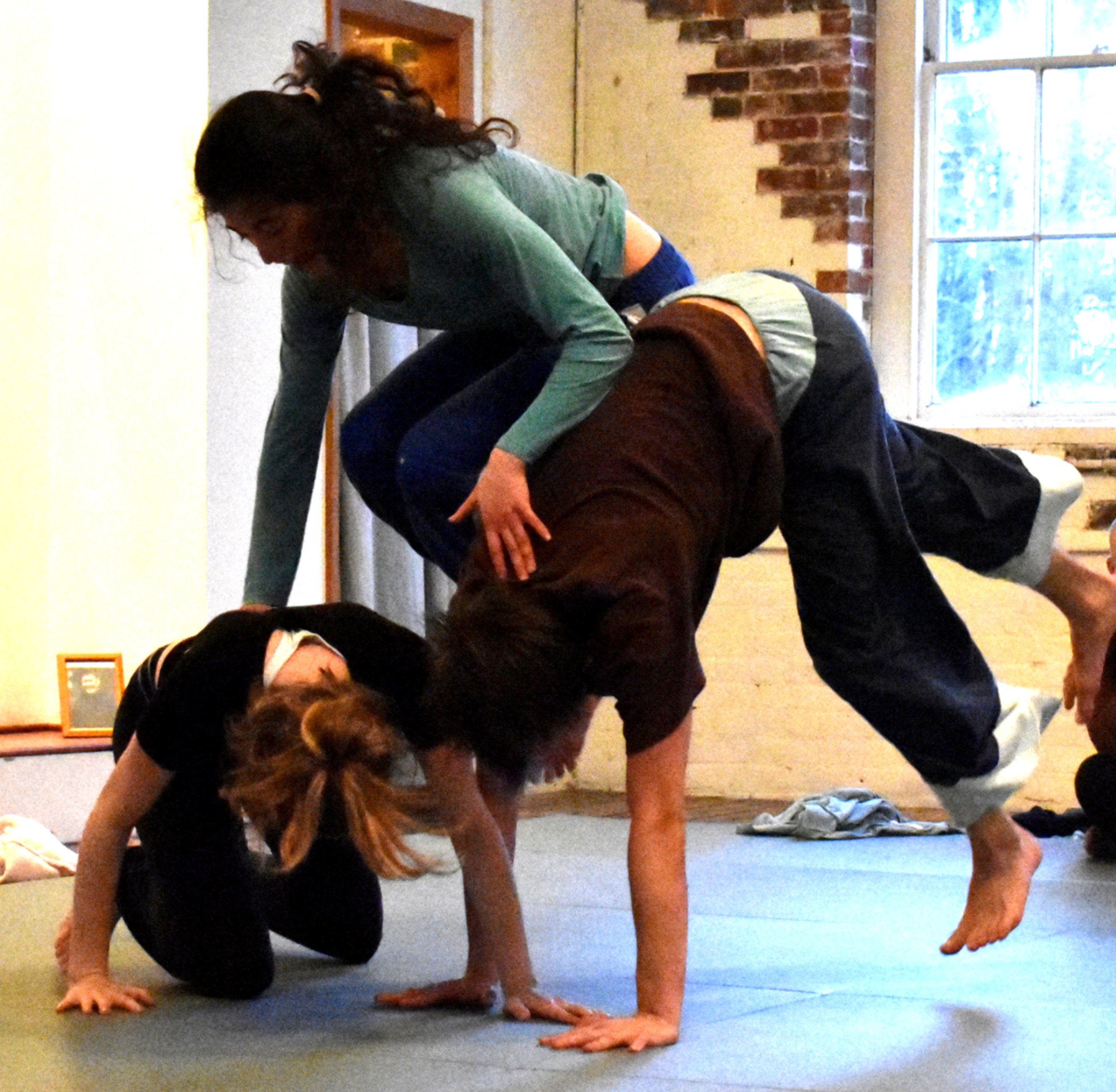 This image of a Contact Improvisation trio was taken in Florence (MA) during a workshop held by Nancy Stark Smith, in January 2017.